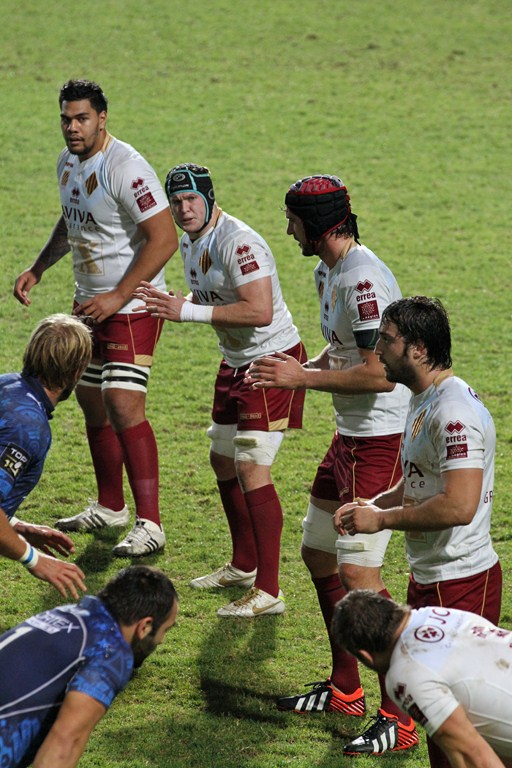 Alignement de l'USAP face à Montpellier lors de la 13ème journée de Top 14